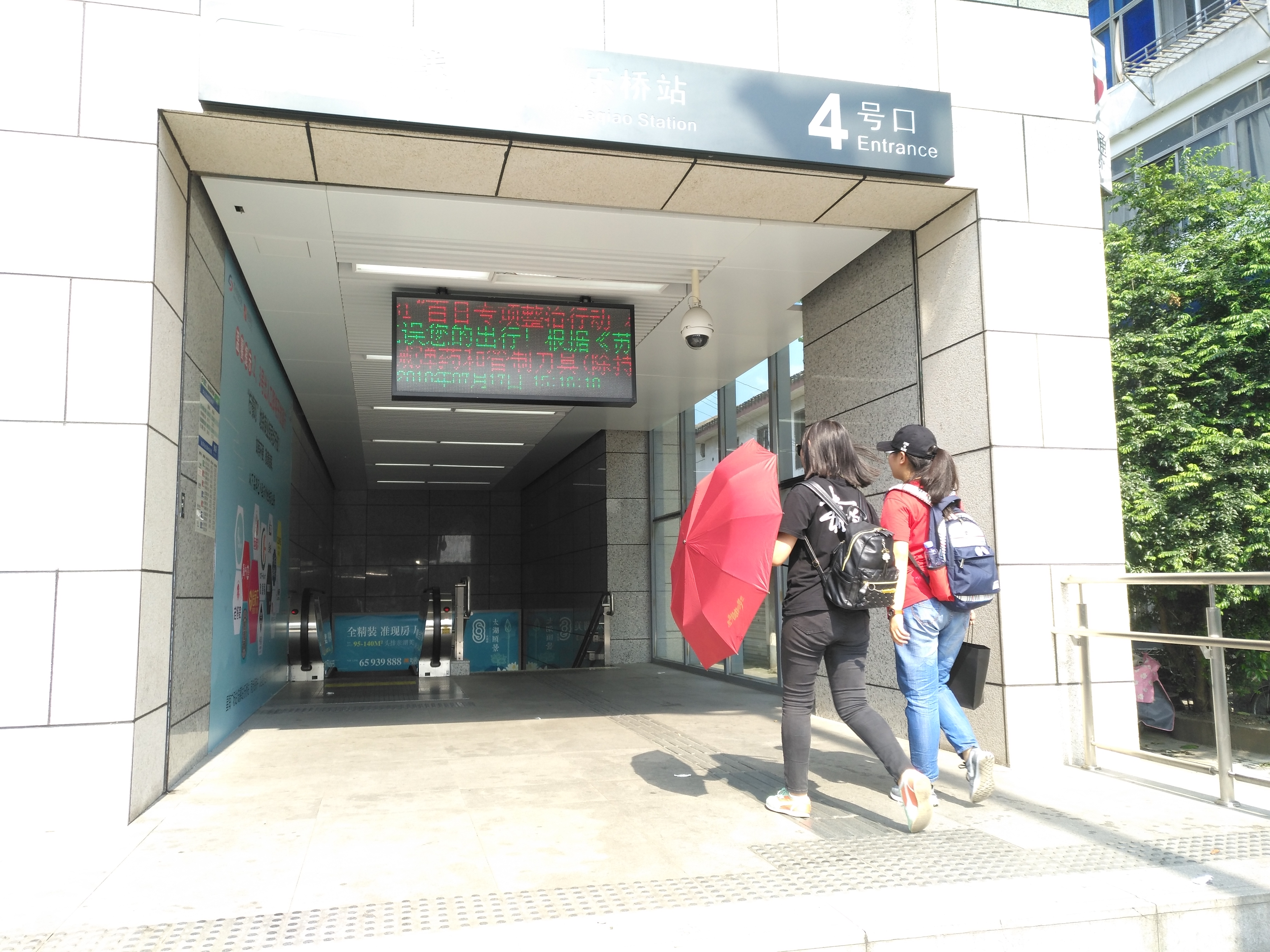 Exit 4 of Leqiao Station of Suzhou Rail Transit, which opened in April 2017.